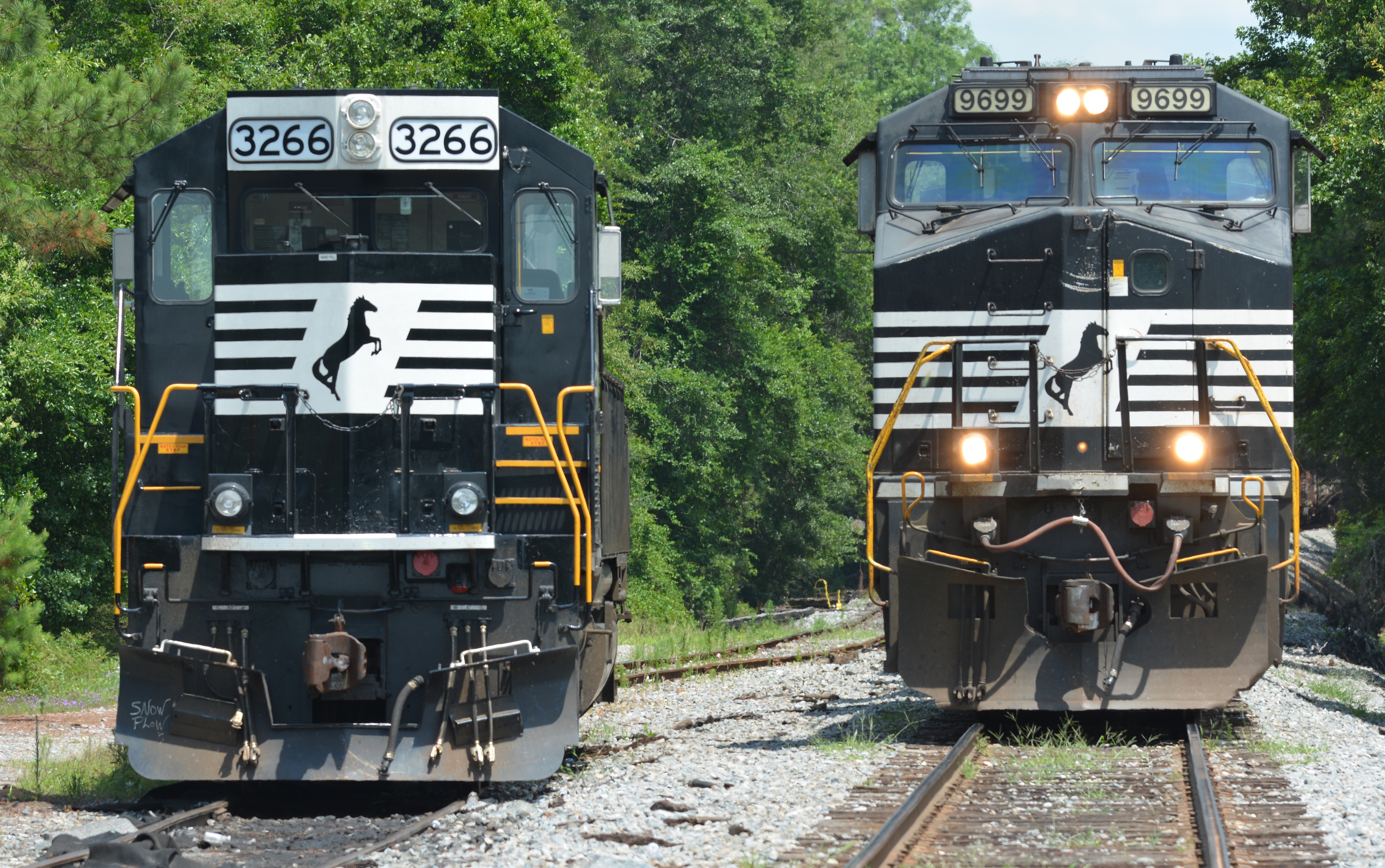 Two Norfolk Southern locomotives